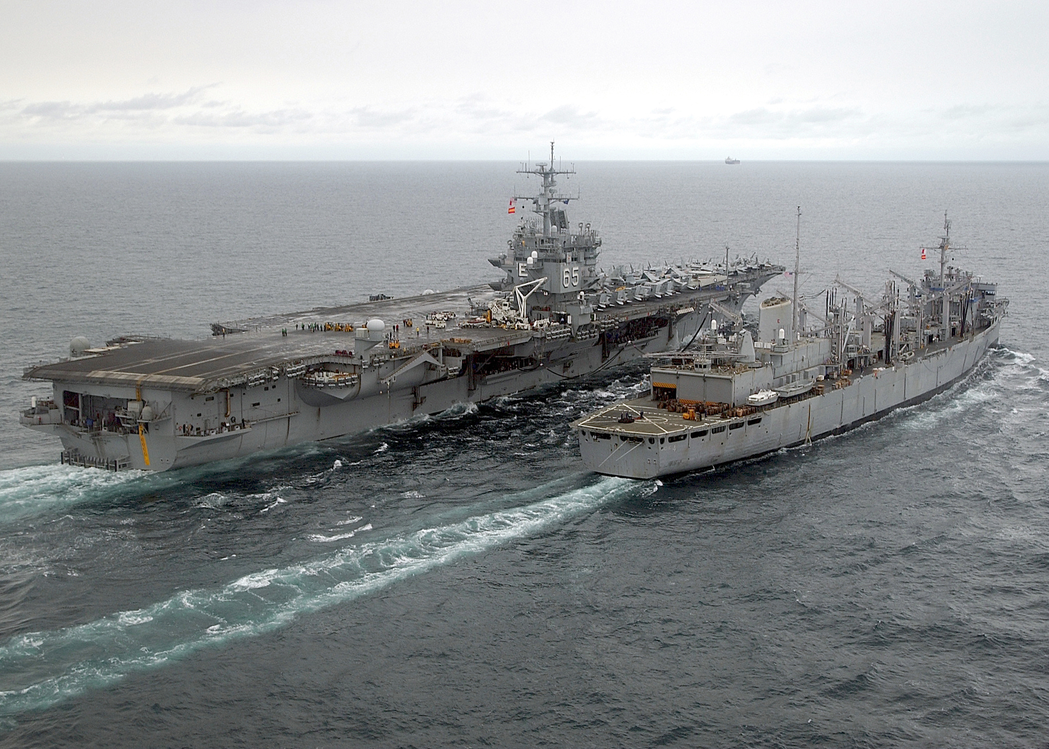 Arabian Gulf (Jan 10, 2004) -- The fast combat support ship, USS Detroit (AOE-4) steams alongside USS Enterprise (CVN-65) while conducting an early morning Replenishment at Sea (RAS). Enterprise is underway in the Arabian Gulf conducting missions in support of Operations Iraqi Freedom and the continued war on terrorism. U.S. Navy photo by Photographer's Mate Airman Joshua E. Helgeson. (RELEASED)